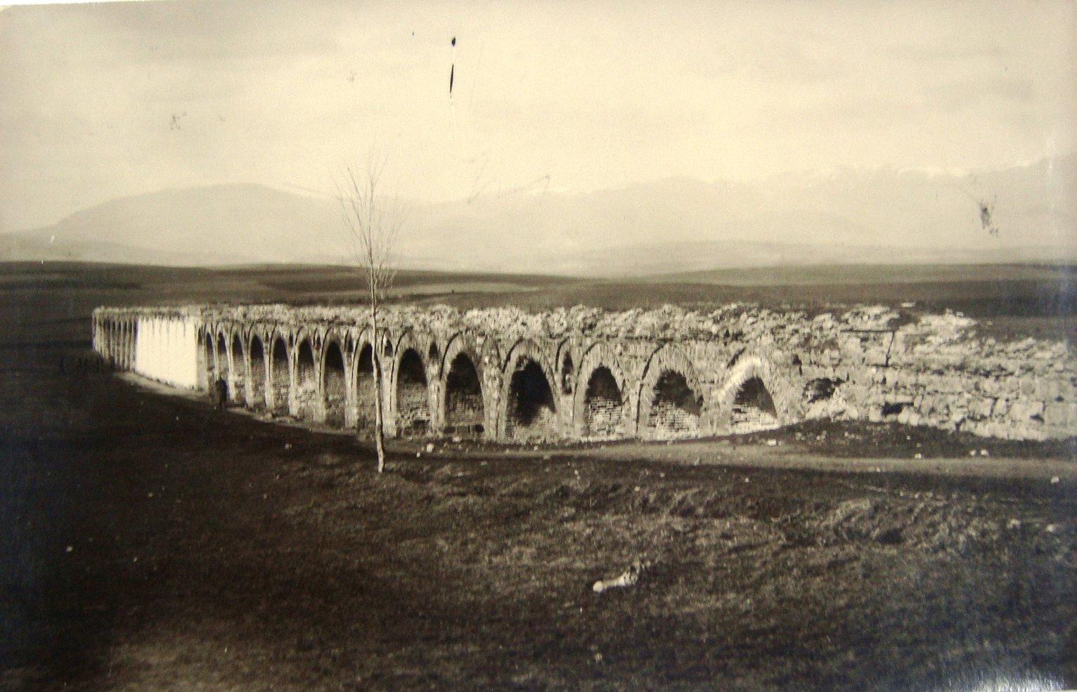 Historical images of Skopje: Аqueduct. This media file is produced by Wikipedian in Residence in Category:Wikipedian in Residence at DARM in 2016.